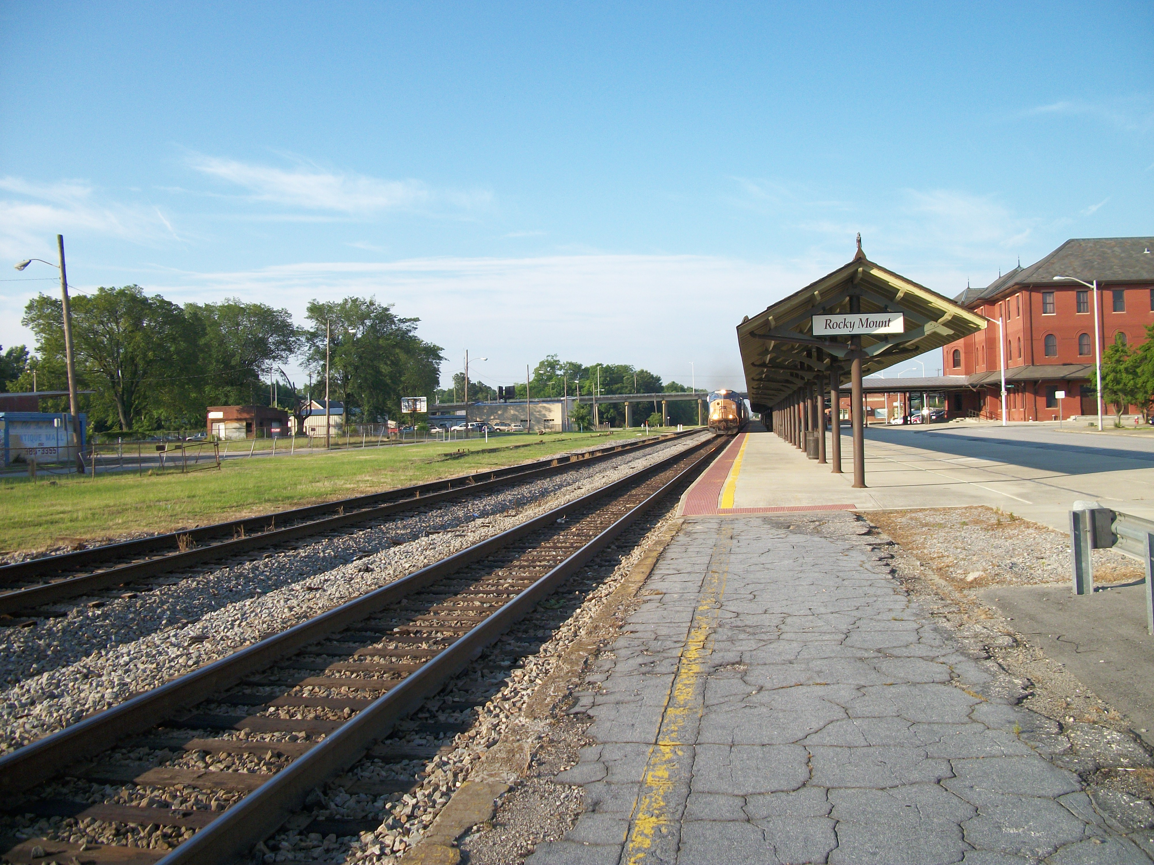 A CSX freight train is about to pass by the historic Helen P. Gay Rocky Mount (Amtrak station) in Rocky Mount, North Carolina as it heads north. A Tropicana juice train also passed by this station during my quest for pictures of it, but I don't remember if it was this one, or a train that passed through the night before. But I do remember that the juice train had all their refrigerator cars covered with graffiti, so I skipped taking any pics of them.